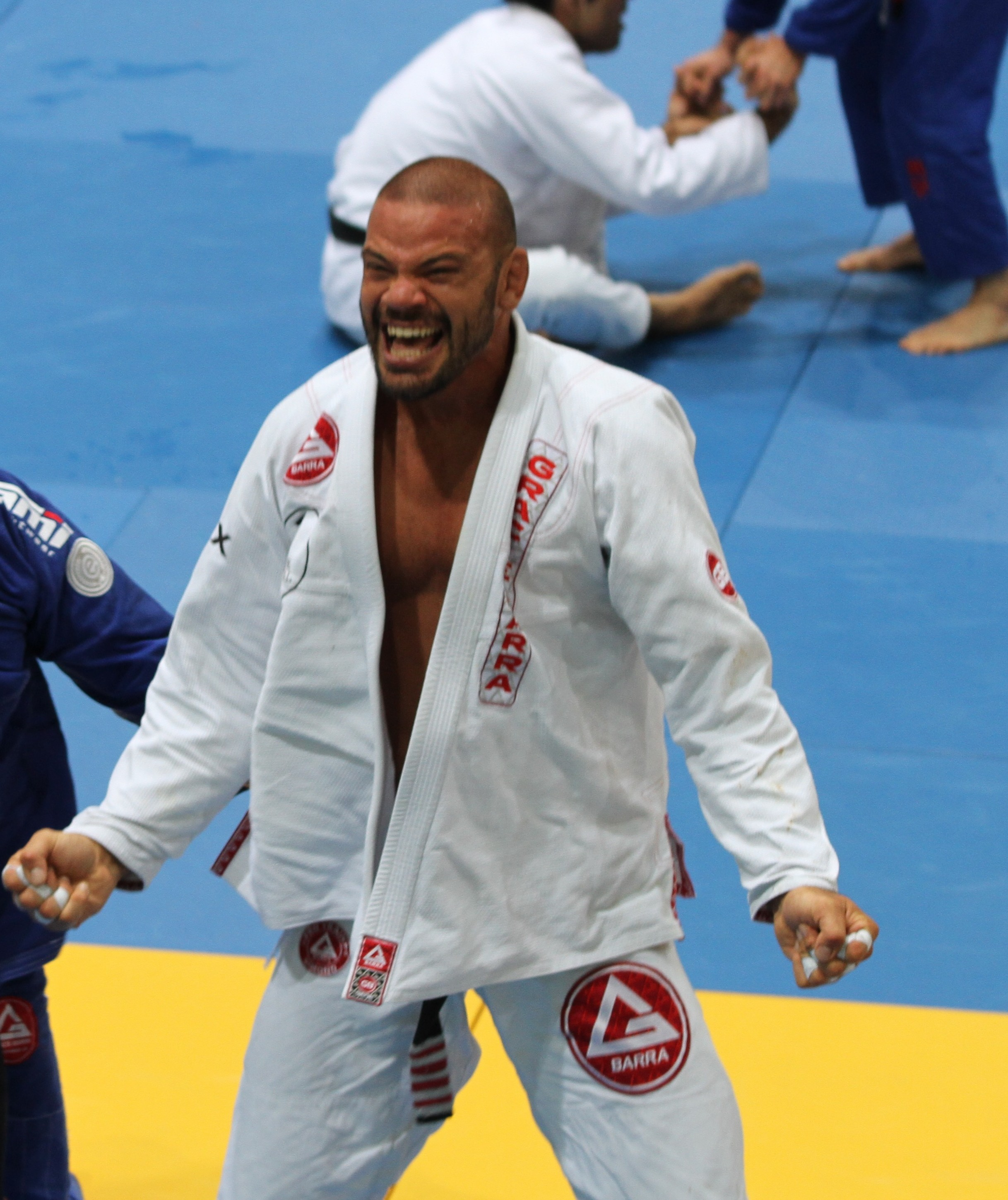 European bjj championship 2016